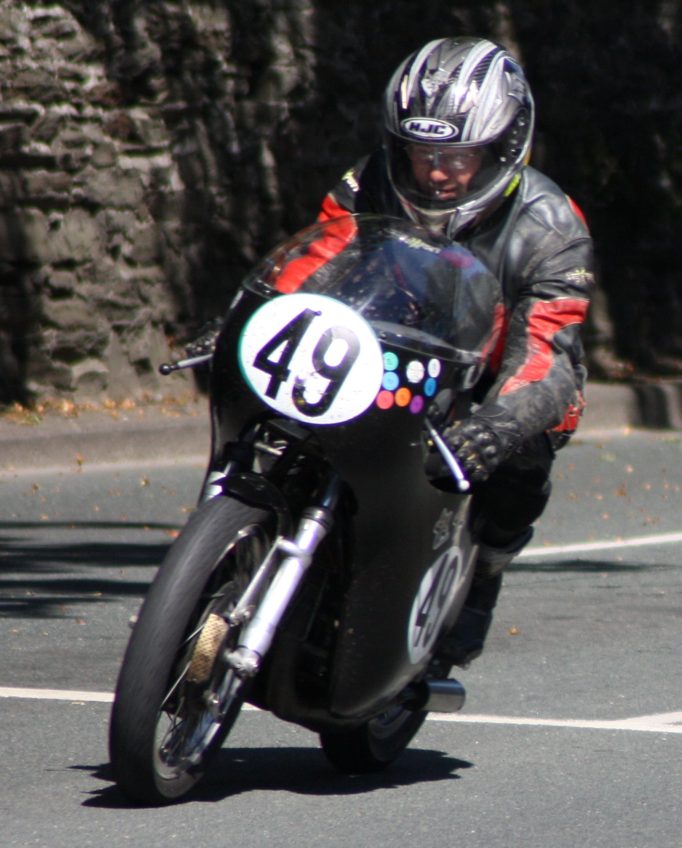 David Smith riding a 246cc Yamaha during the 2010 Manx Grand Prix Lightweight Classic. He finished second with a time of 01:40:41.17, averaging 89.935 mph around the course. Pictured at St Ninian's Crossroads, Douglas.